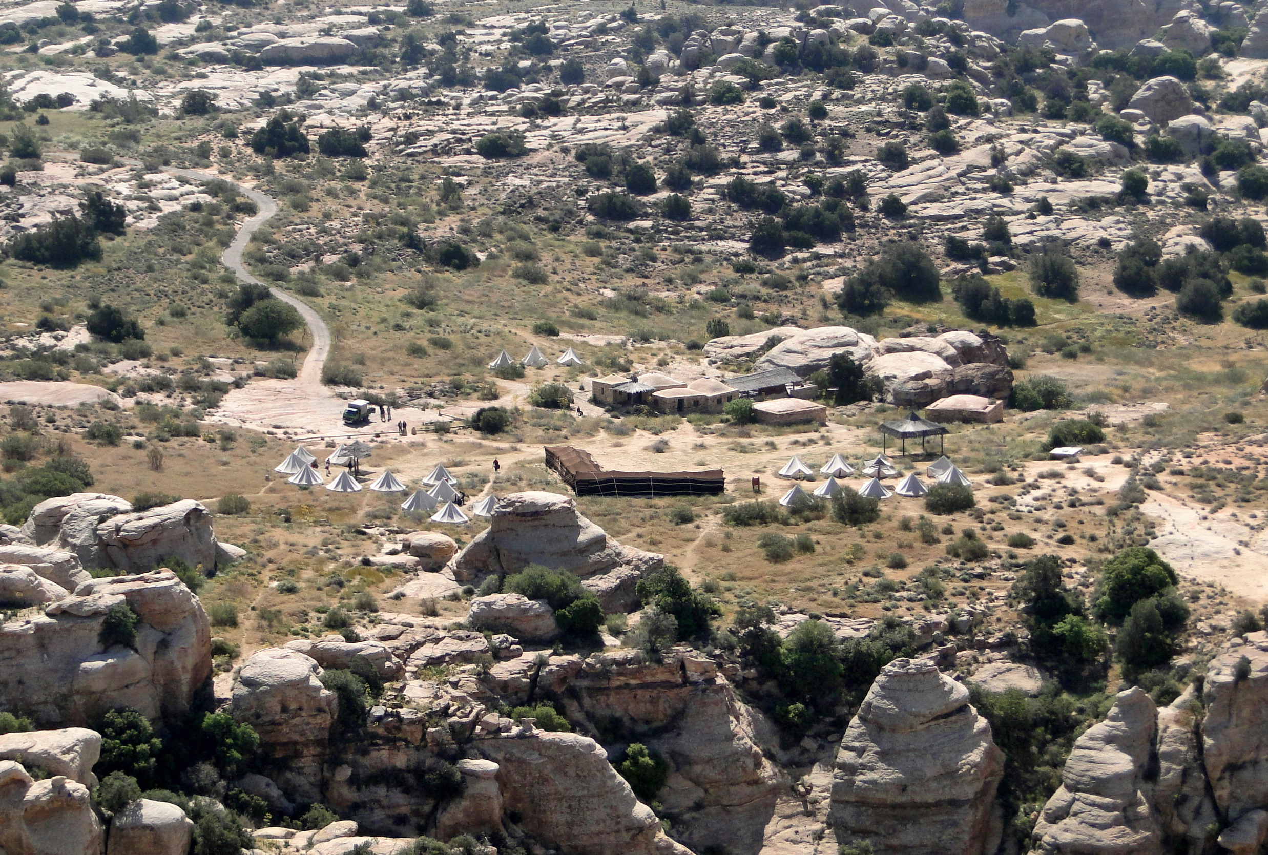 View of Rummana Campsite in Dana Biosphere Reserve, Jordan